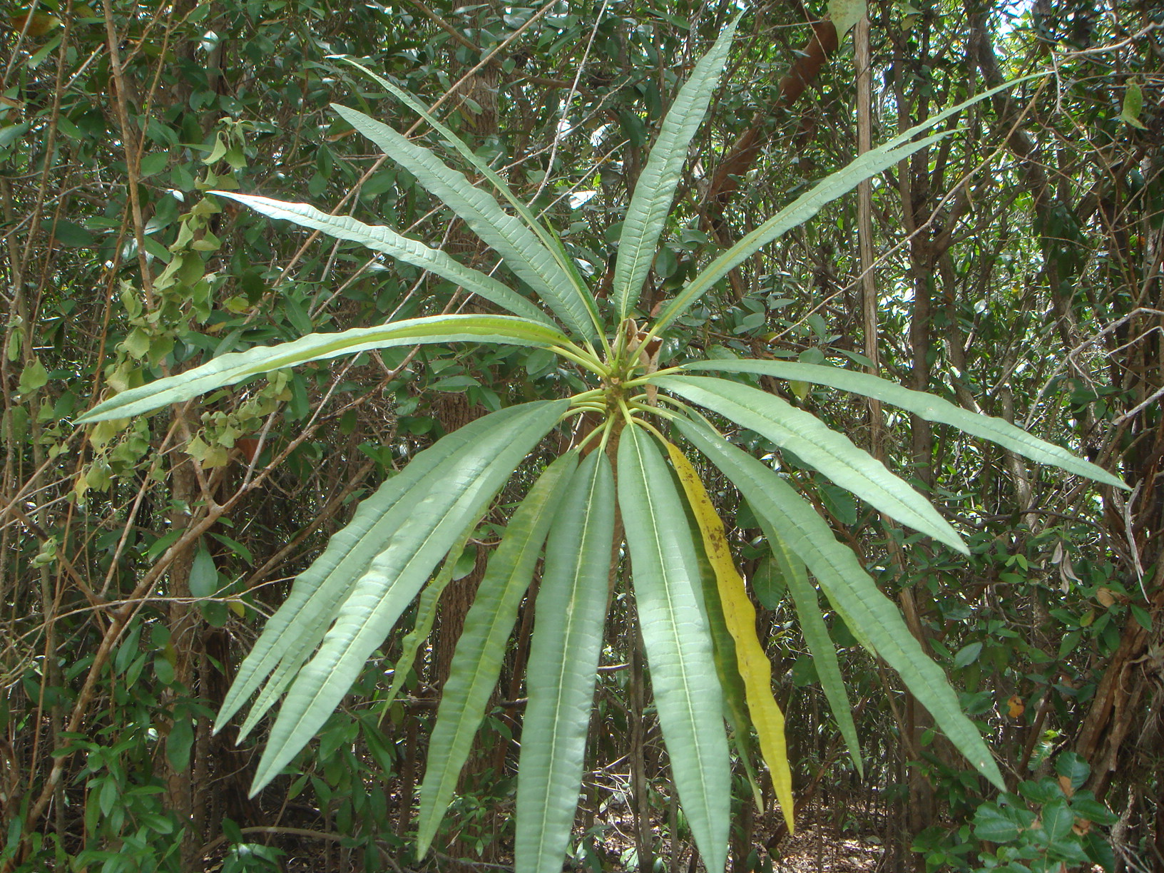 Milktree, Guánica State Forest,PR.